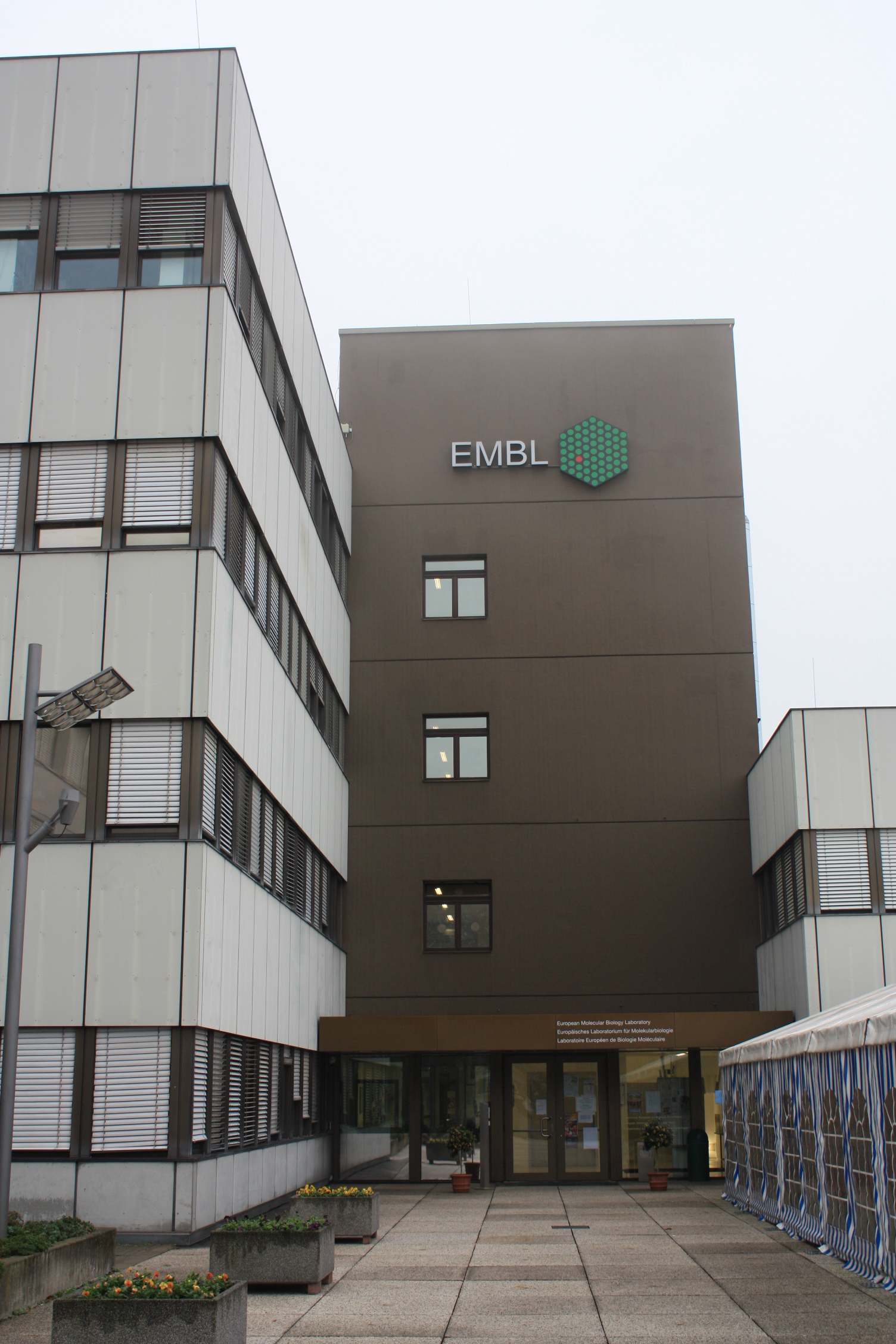 The main EMBL Laboratory in Heidelberg